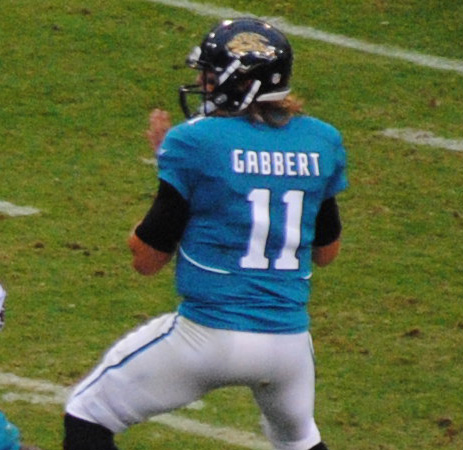 Blaine Gabbert, Quarterback of the Jacksonville Jaguars